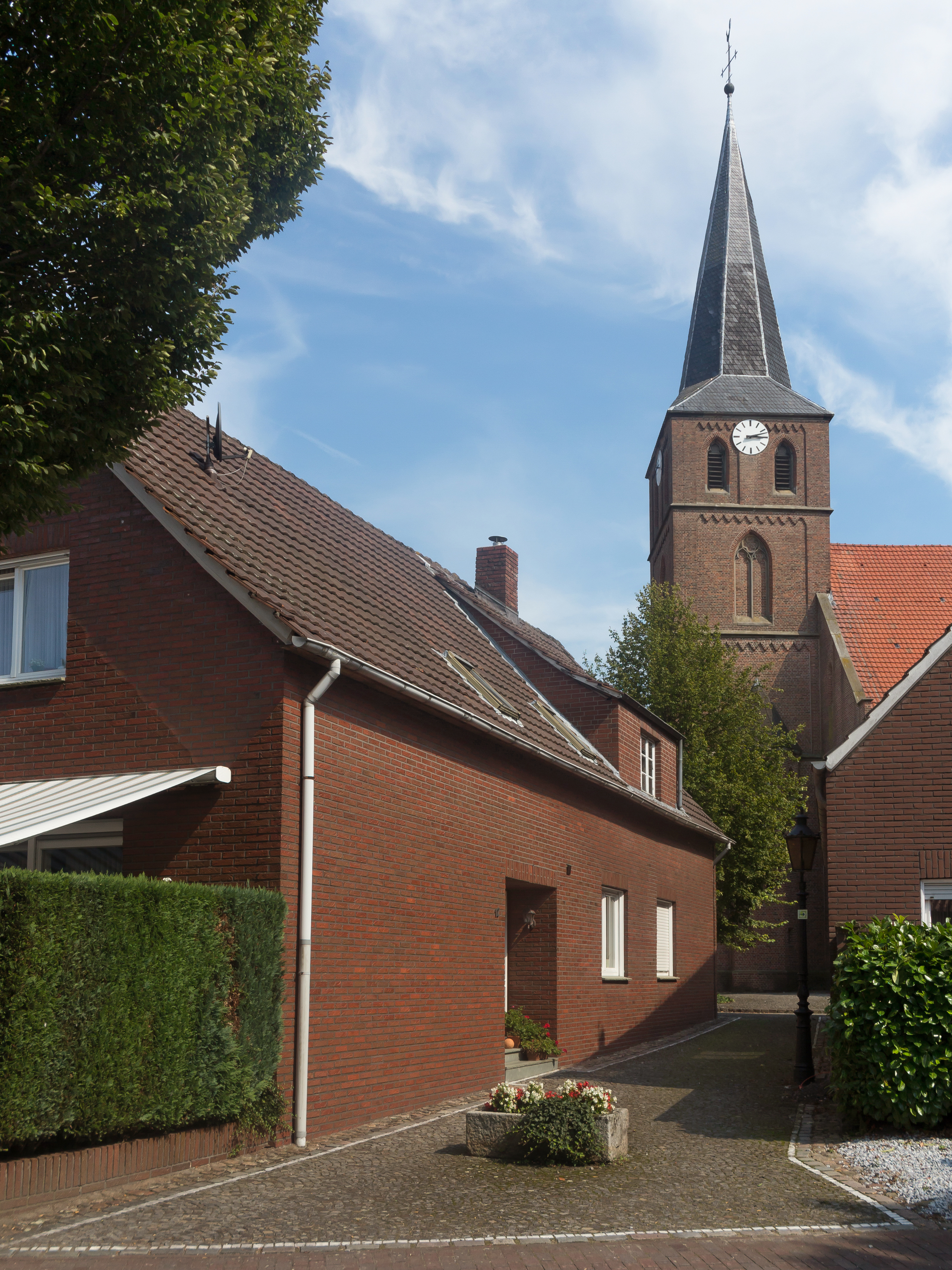 Ammeloe, church: die katholische Rektoratskirche Sankt Antonius AbtThis is a photograph of an architectural monument., no. 1